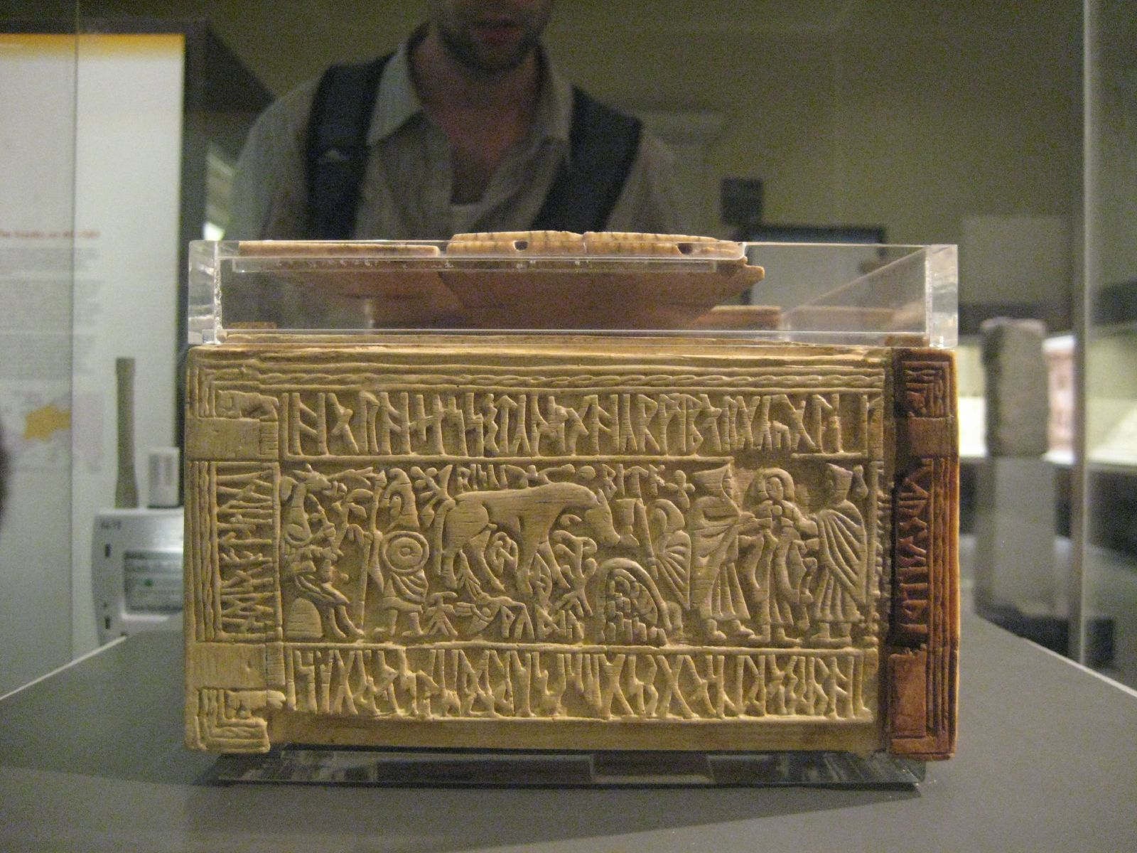 The right panel of the Franks casket.